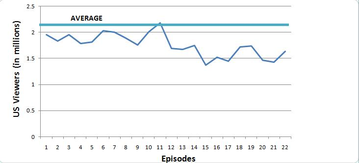 Overall Performance Ratings of 90210 Season Three in United States.